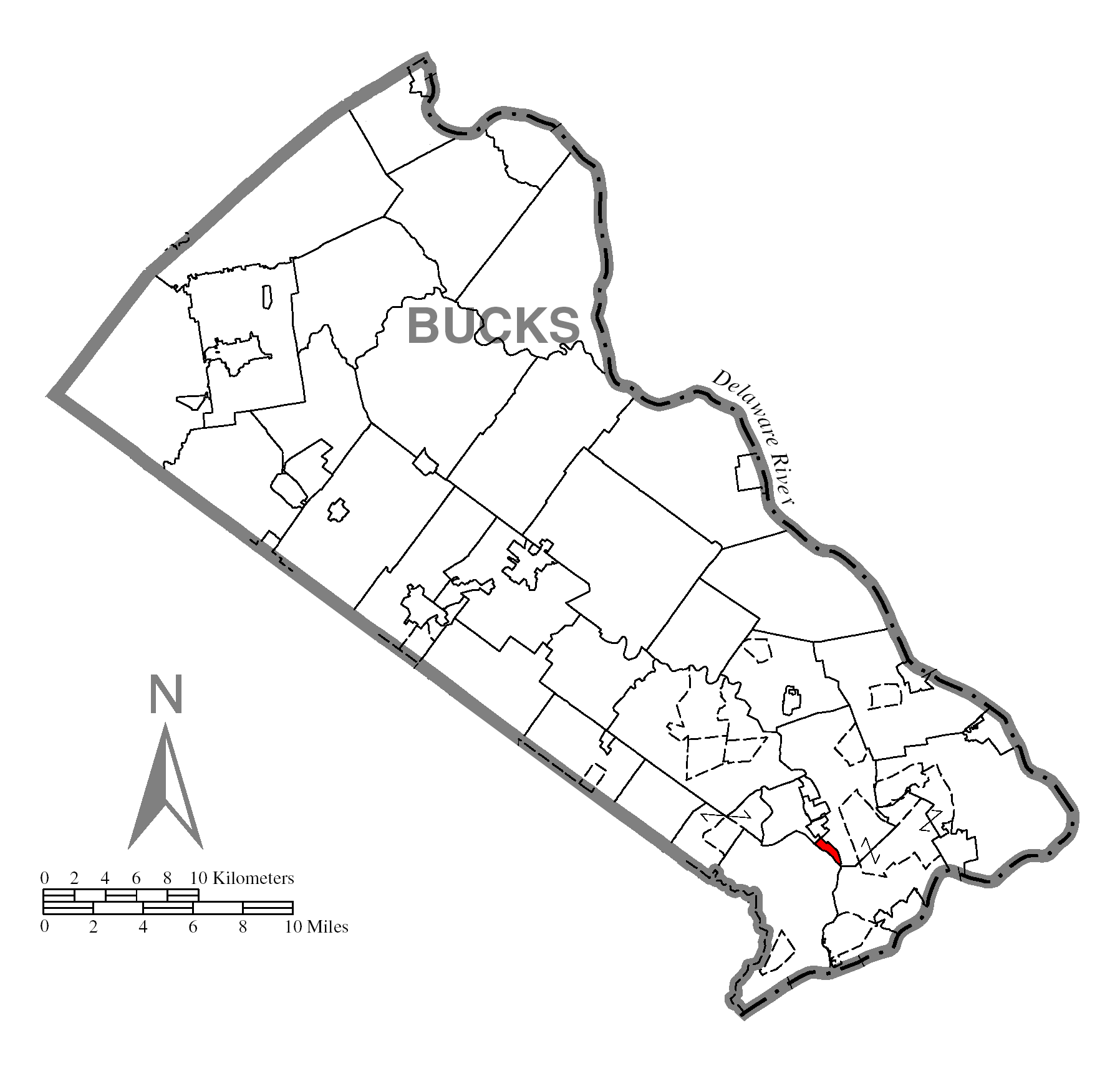 A map of Bucks County showing Hulmeville, Pennsylvania (alternate) highlighted on the map.